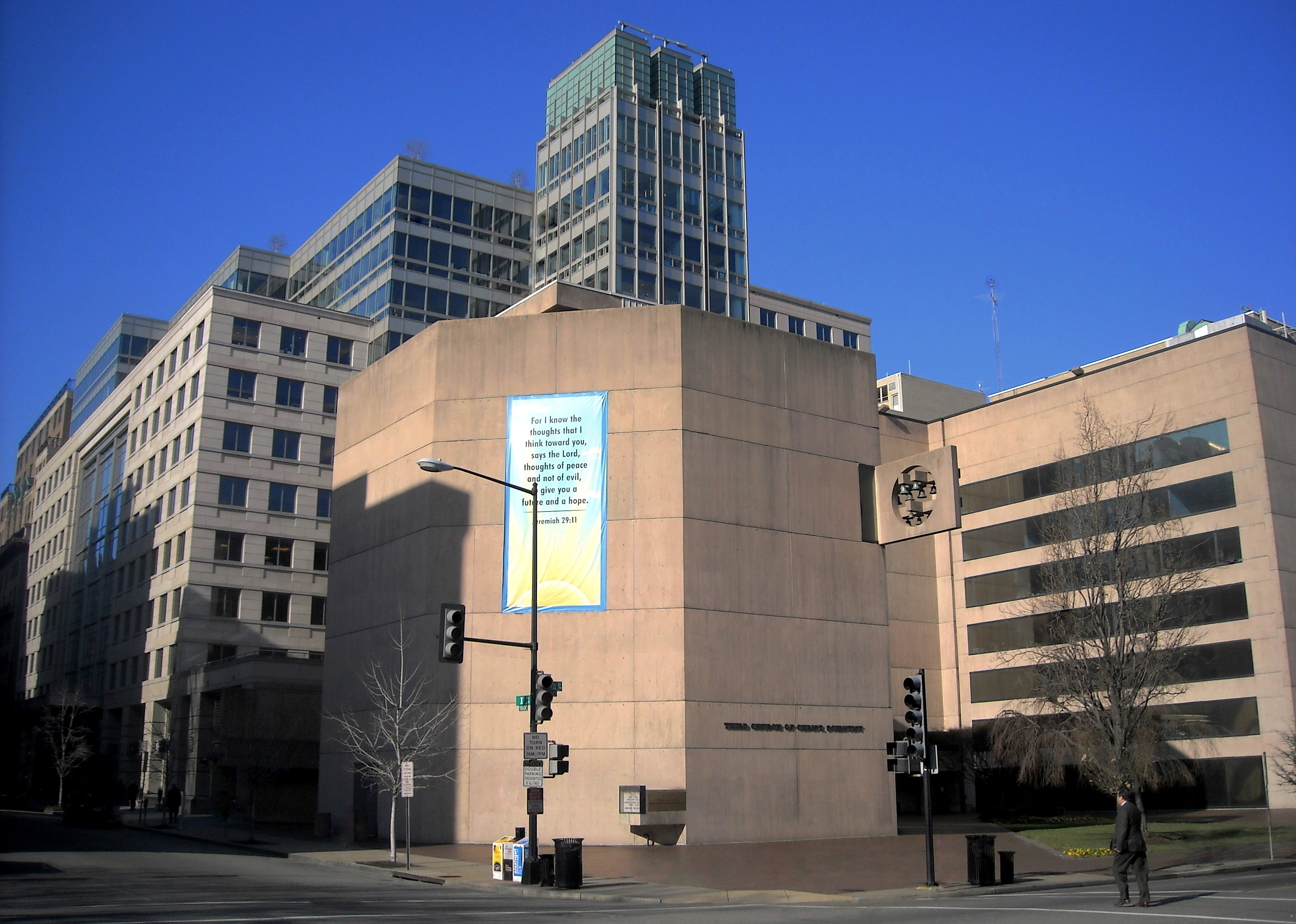 The octagonal building in the foreground is the Third Church of Christ, Scientist (1971) that was located at 900 16th Street, Northwest in downtown Washington, D.C.. Across the small plaza to the right is an office building built as part of the project, and originally used by The Christian Science Monitor. The buildings and plaza were designed by Araldo Cossutta of I.M Pei & Partners. The church building is an example of brutalist ecclesiastical architecture. It was demolished in 2014. The building located behind the church is 1625 Eye Street, an example of postmodern architecture and currently the 20th tallest building in Washington, D.C. Its 2009 property value is $252,285,000.